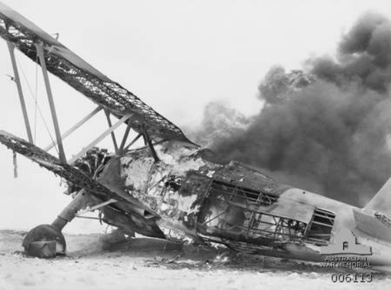 A burning Italian Fiat C.R.42 Falco fighter shot down near El Adam, south of Tobruk, Libya.